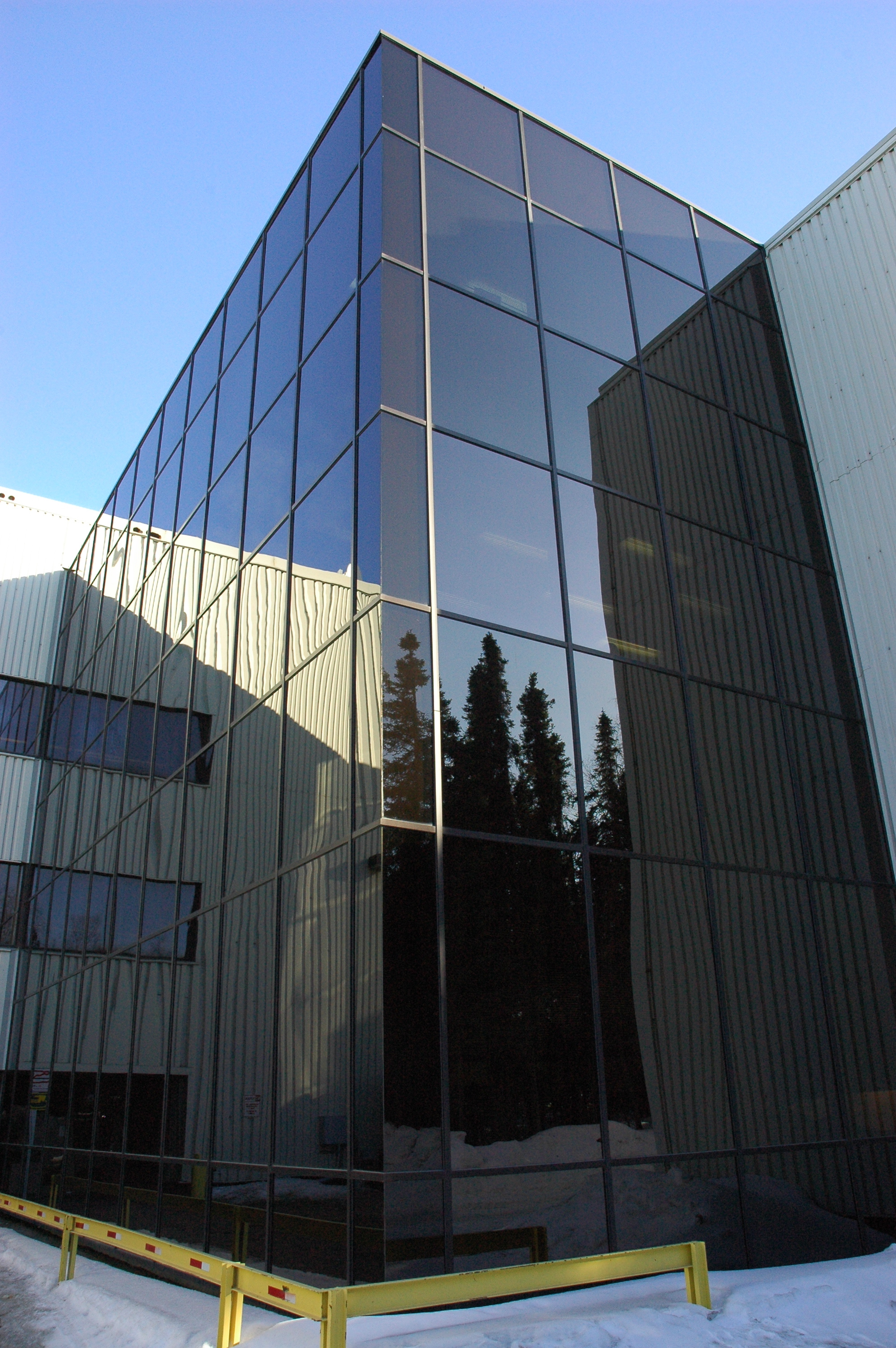 Consortium Library Exterior, architect Roland H. Lane, University of Alaska, campus, Anchorage, Alaska, USA